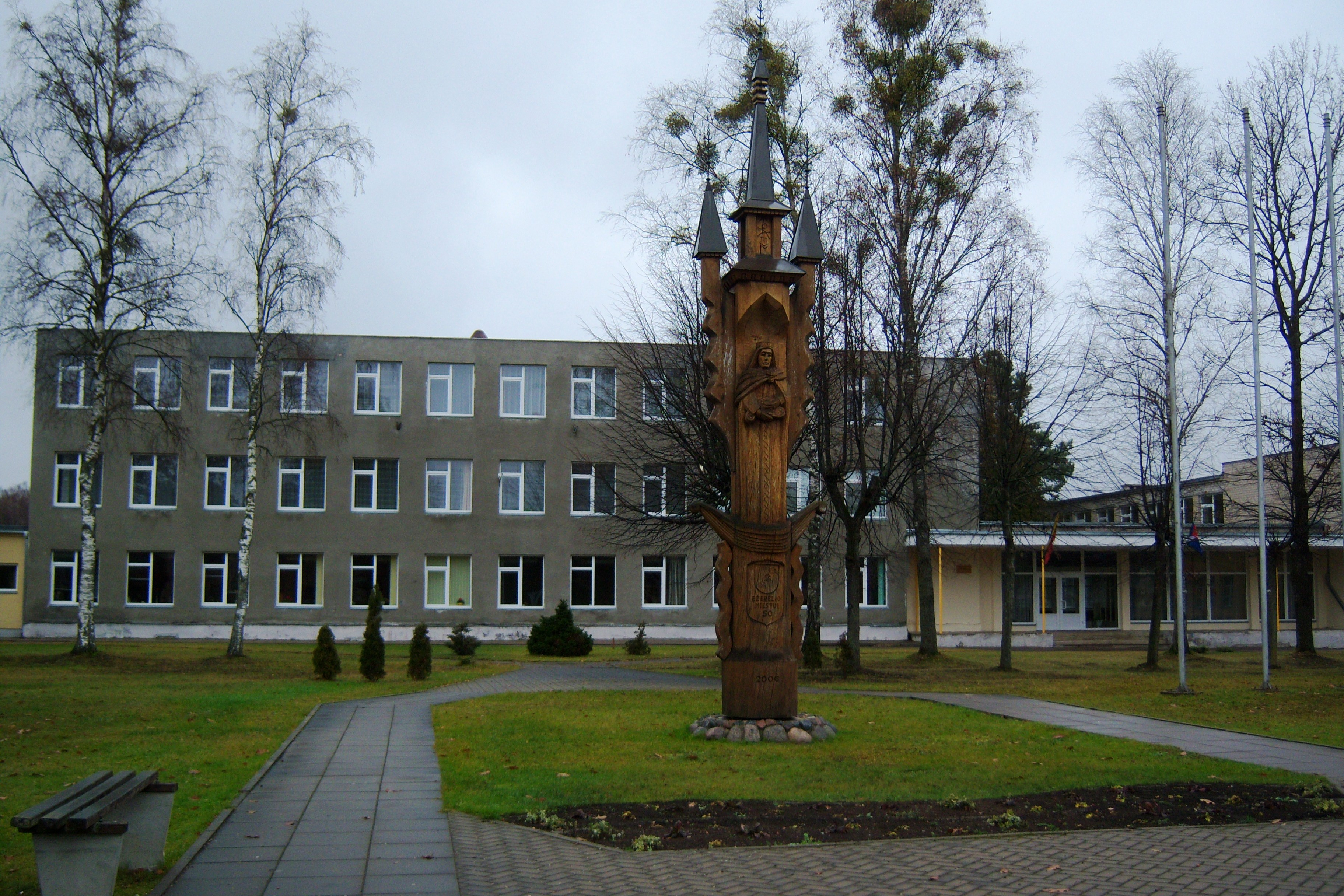 Ežerėlis, square in front of the school, Kaunas District. Lithuania